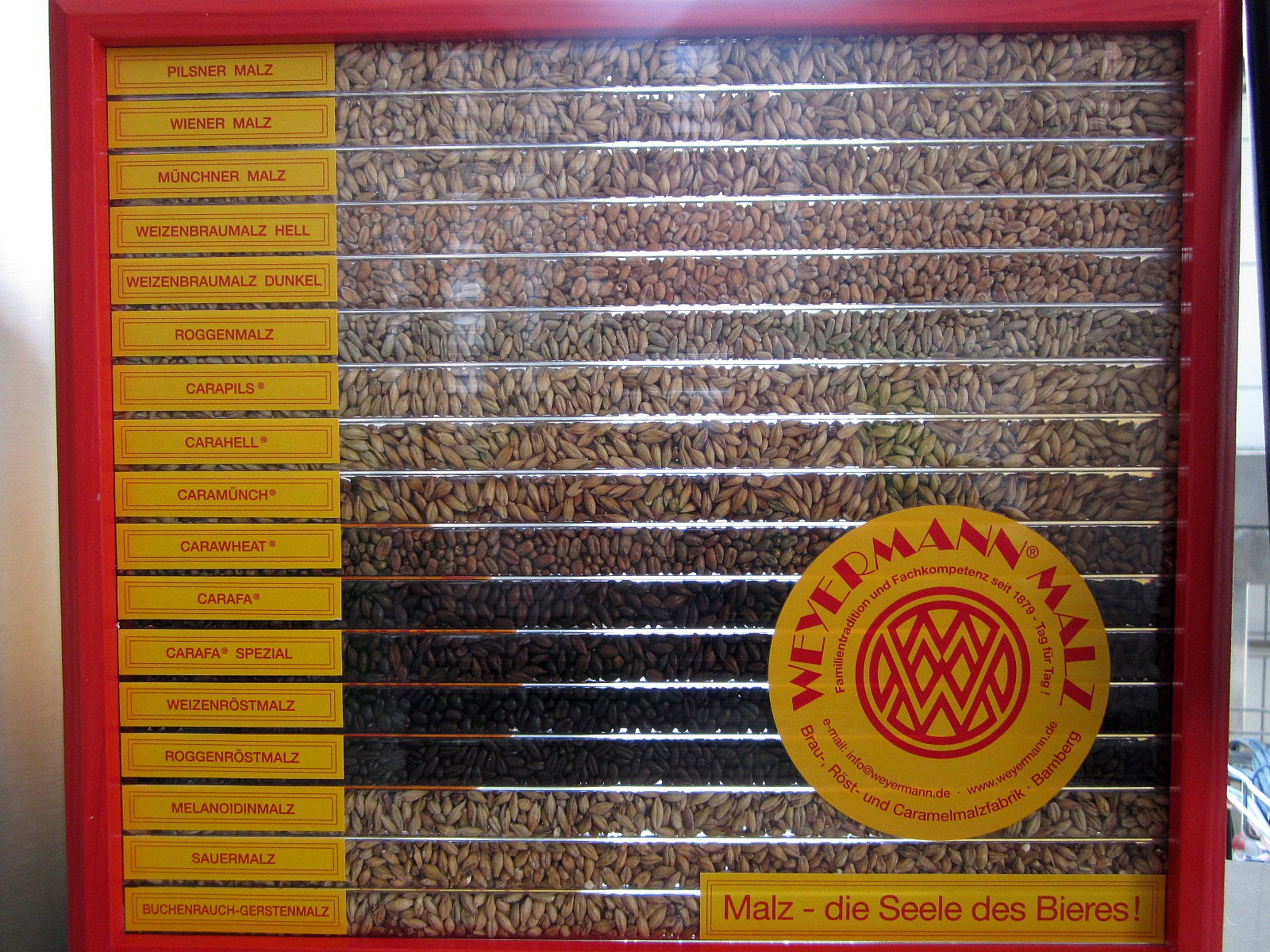 German malt varieties